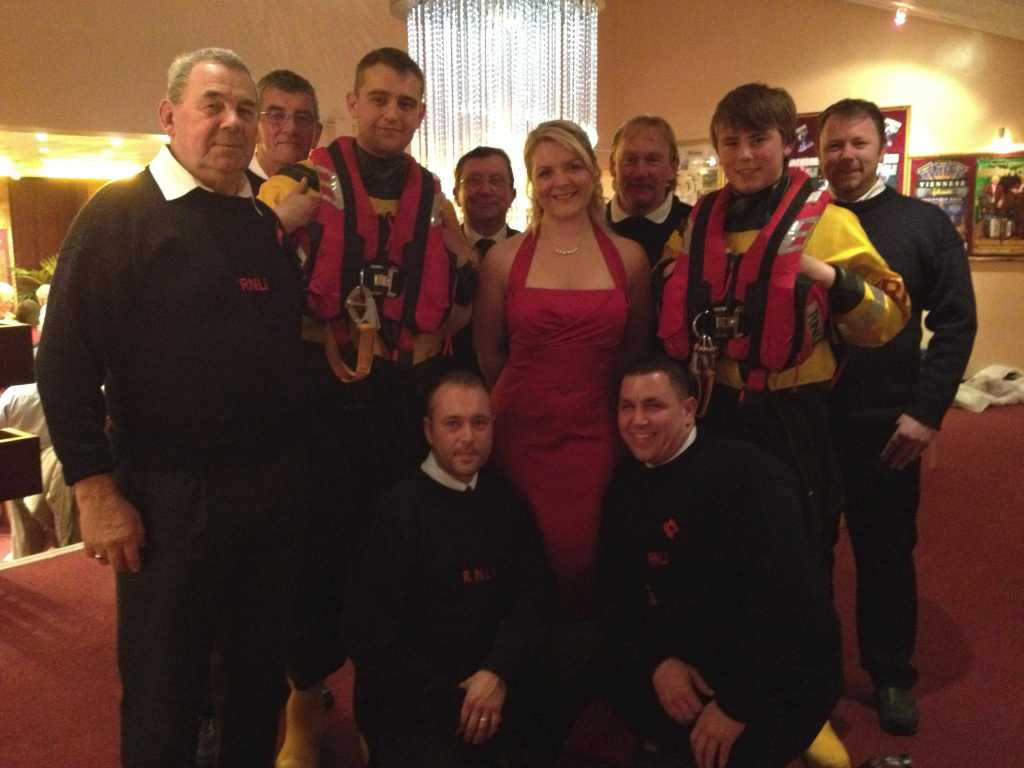 With lifeboatmen after the Weston-super-Mare concert